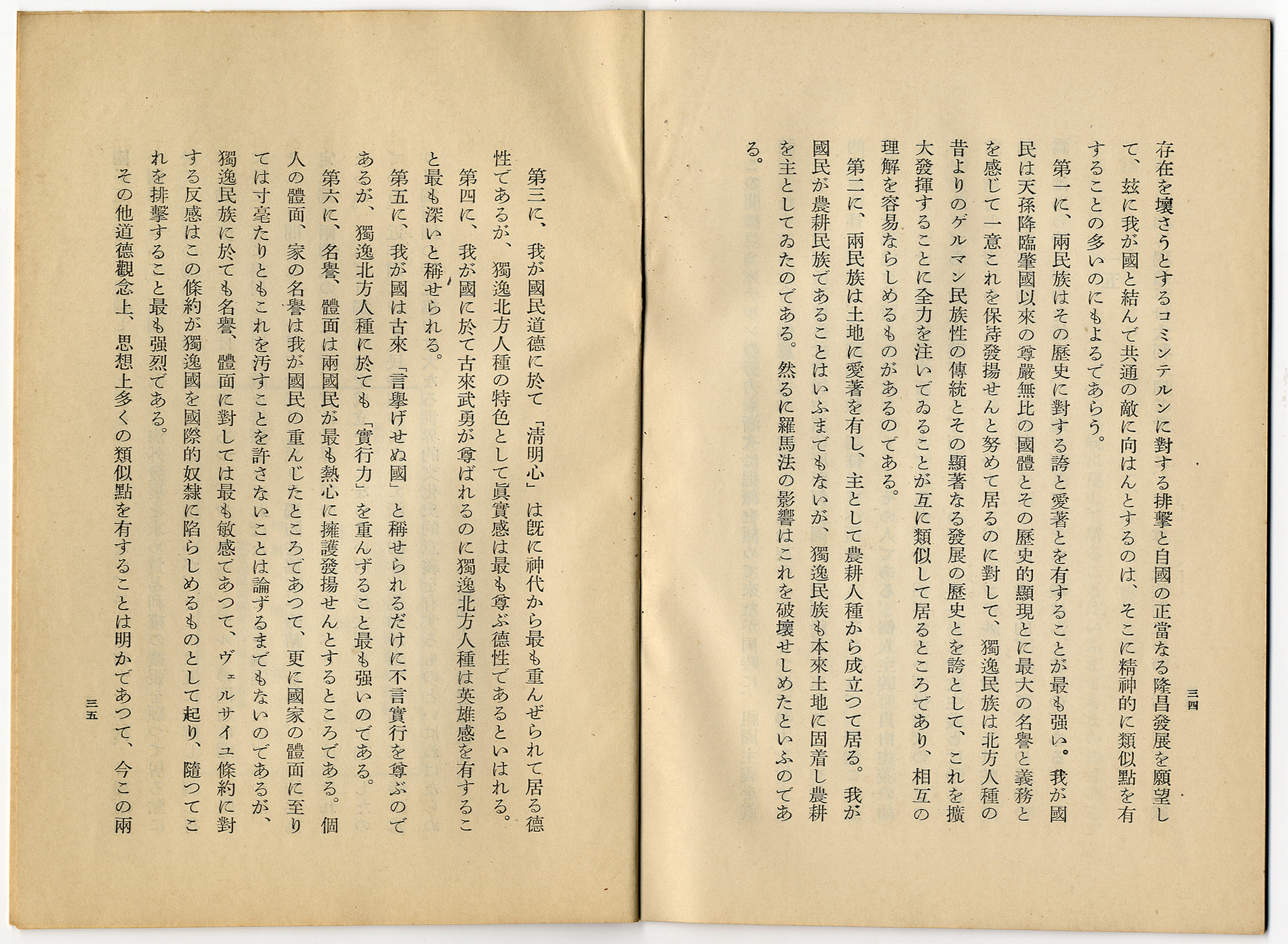 T. Tomoeda on German-Japanese similarities. From a pamphlet written in 1938 and distributed by the Print Office of the Ministry of Education.